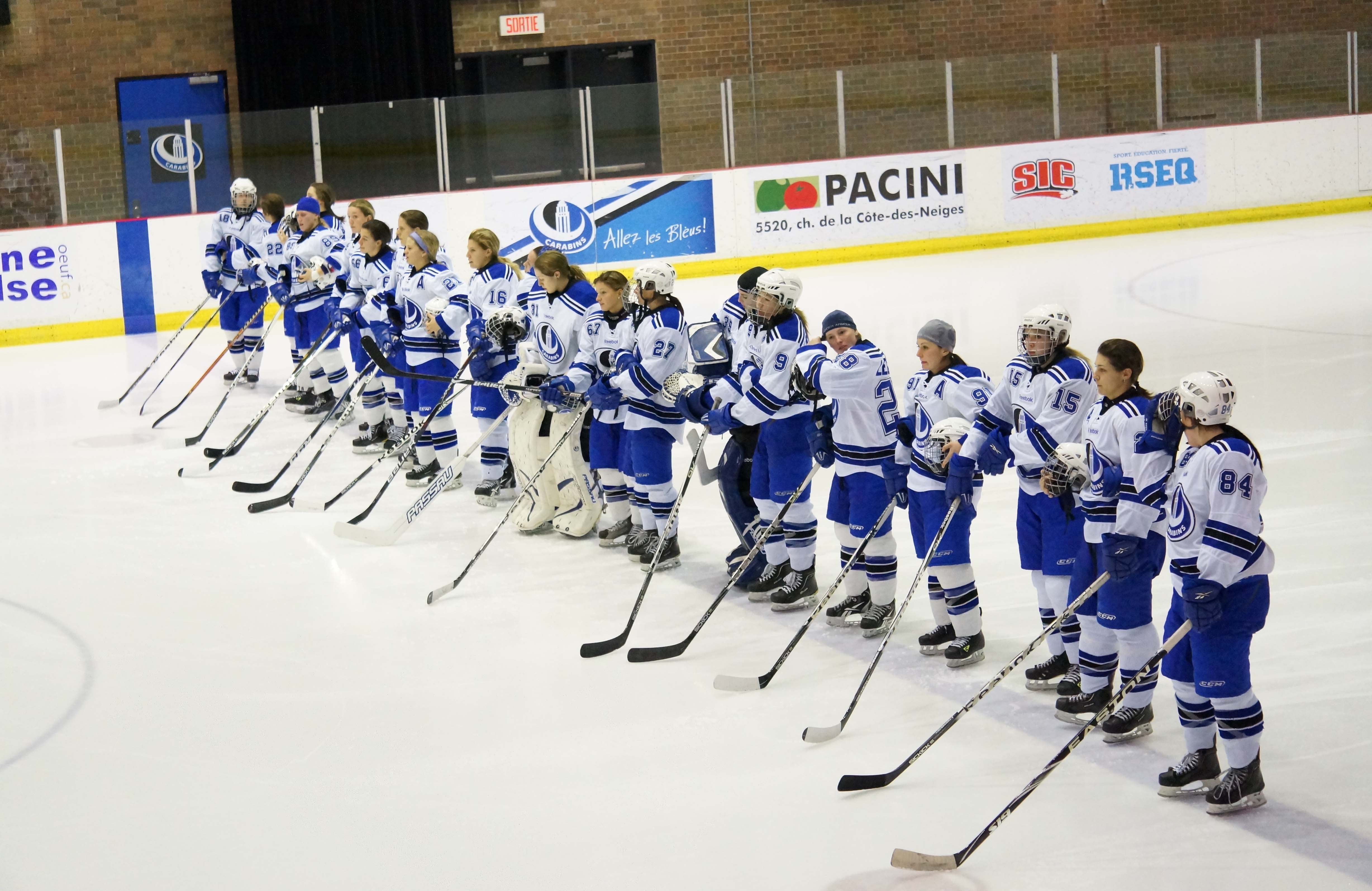 Montreal carabins